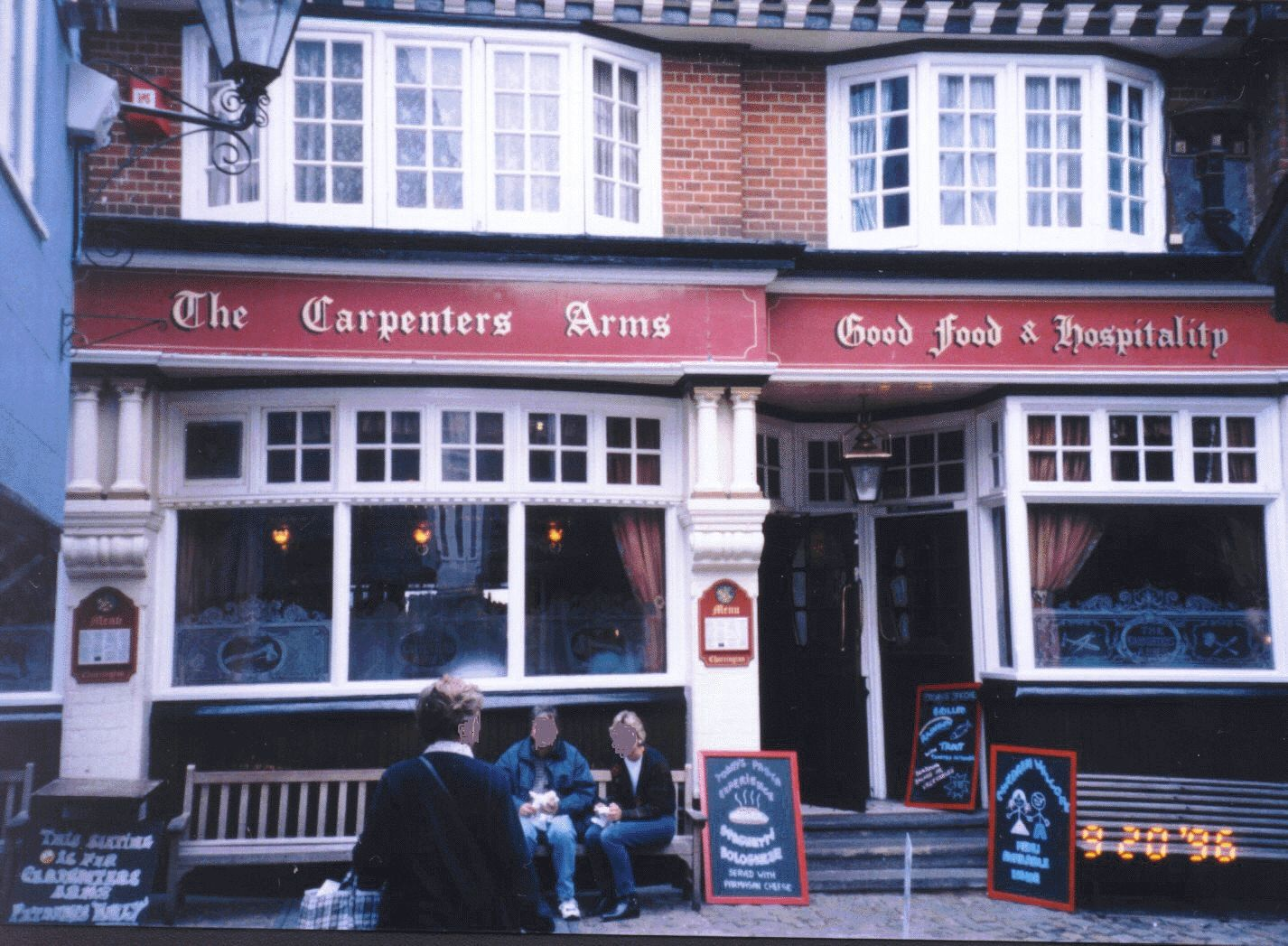 Carpenter Arms pub. 4 Market Street, Windsor, SL4 1PB in 1996